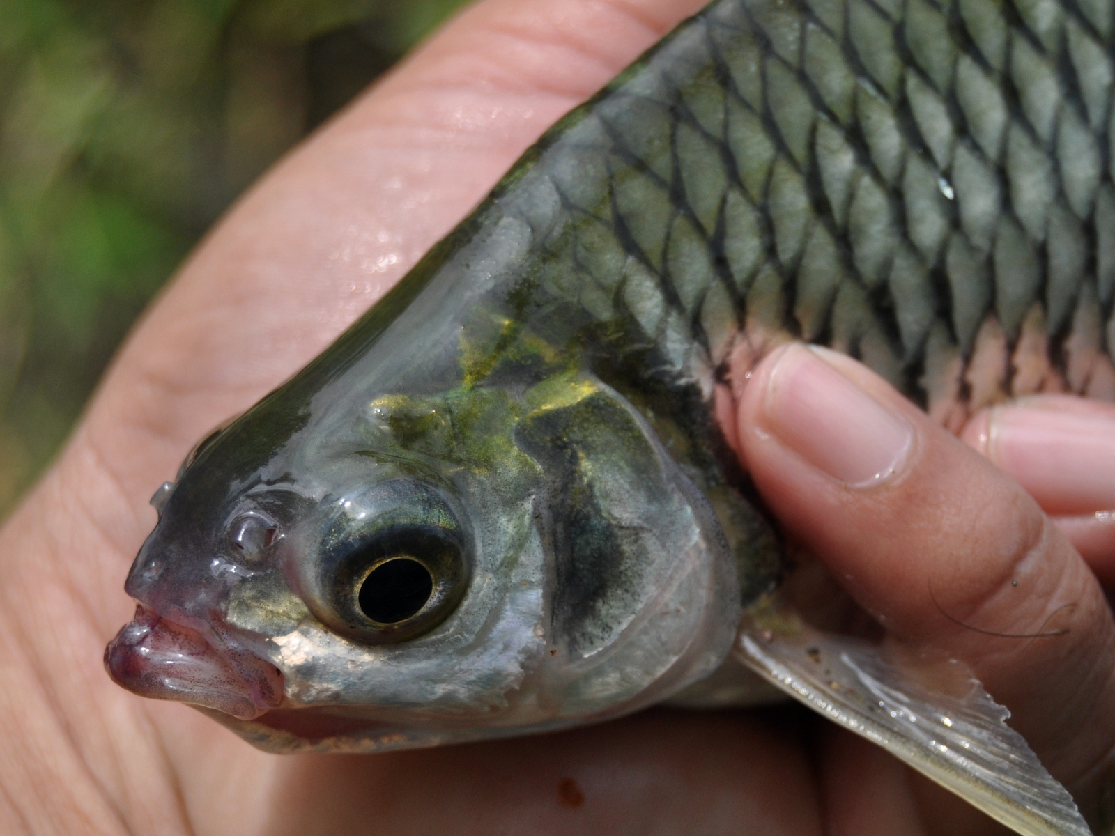 Tawes (Barbonymus gonionotus), 178mm SL; from Tasikmalaya, West Java, Indonesia. Head region.